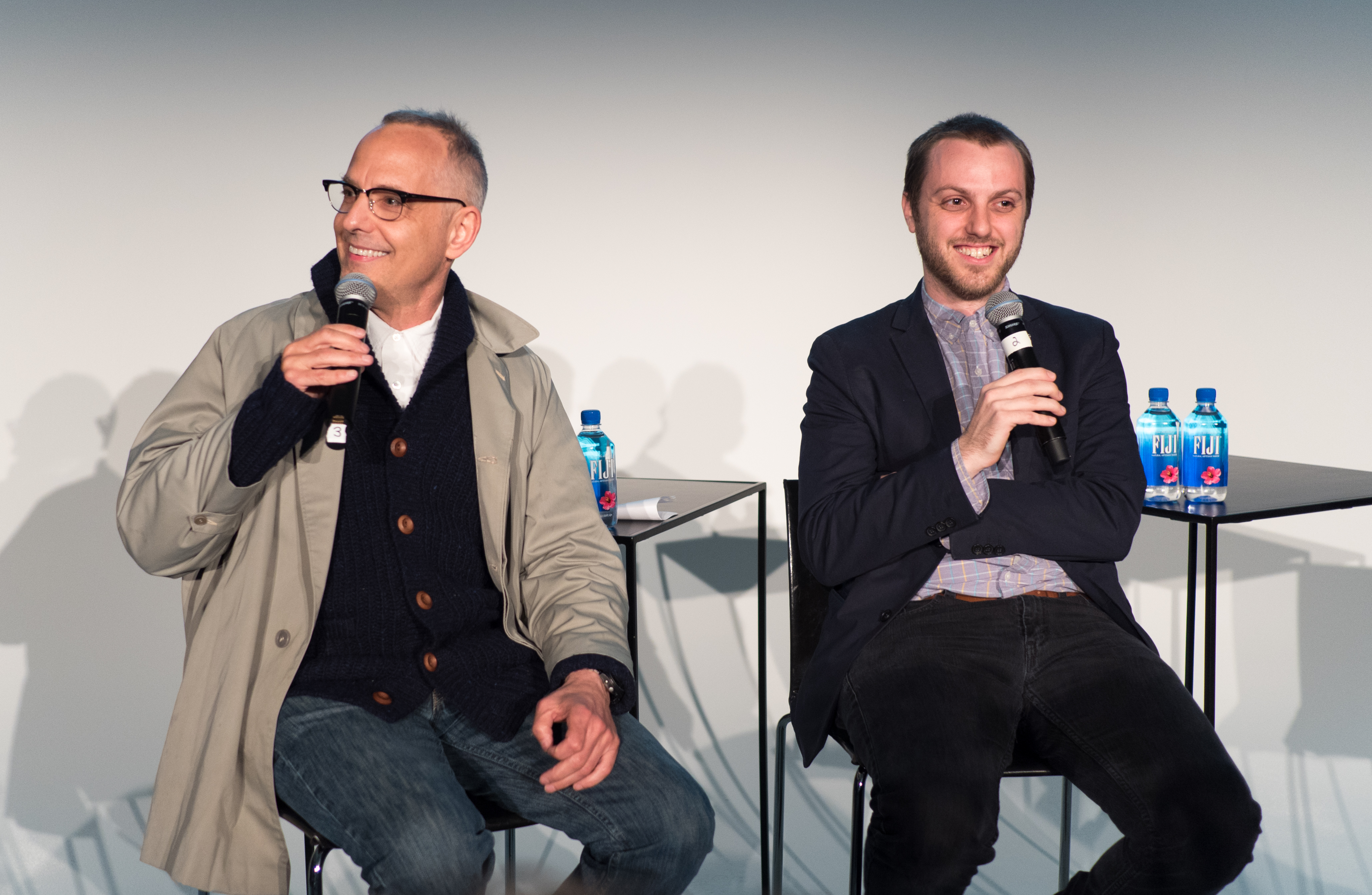 Marc Smerling and Zac Stuart-Pontier at the Crimetown Live session of the Vulture Festival in NYC.